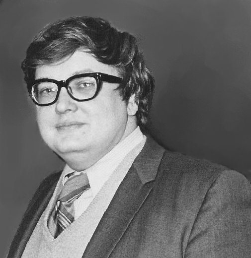 Roger Ebert, american film critic.